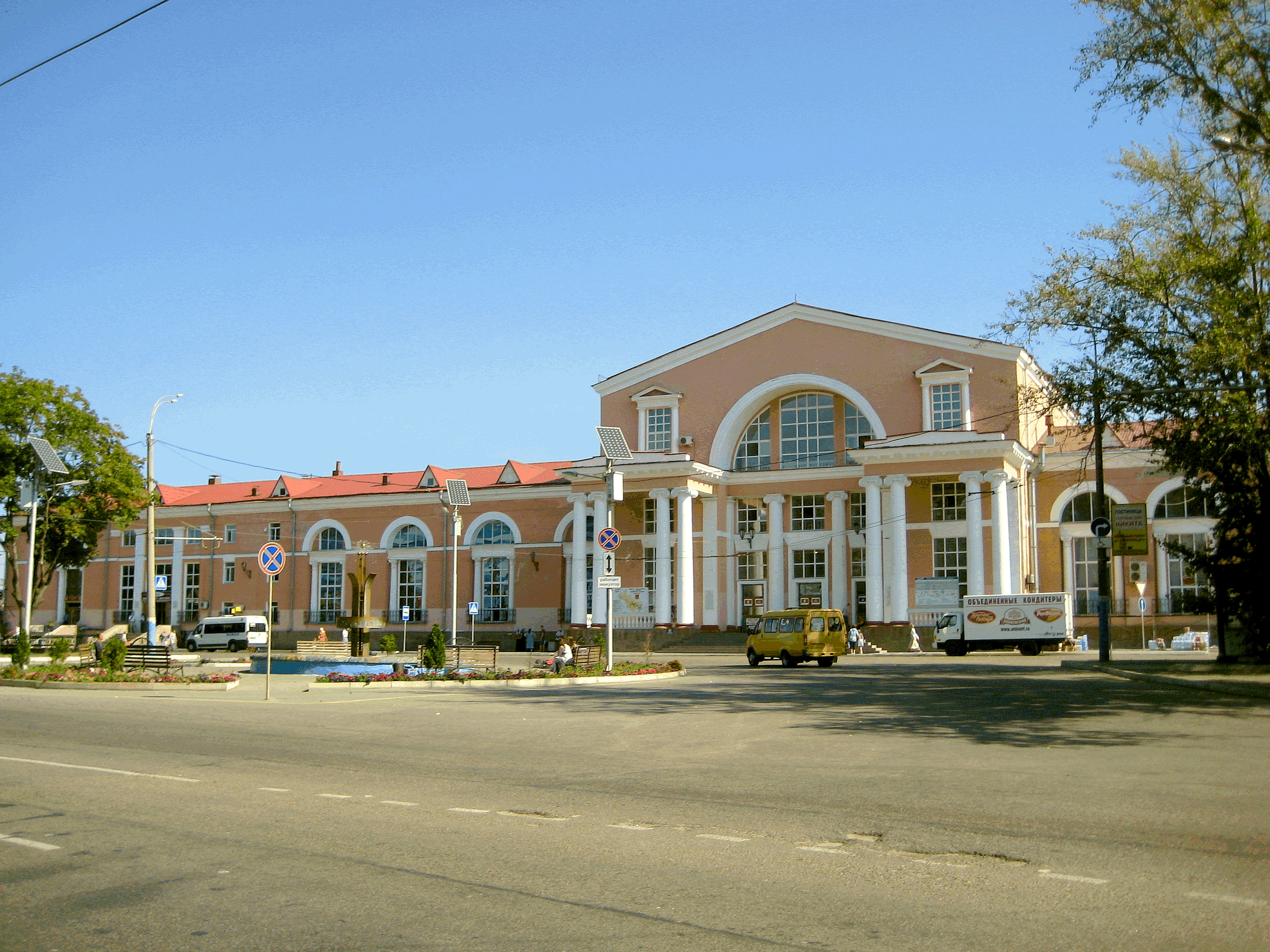 Bryansk. The old railway station building "Bryansk Orlovsky" (Bryansk-1)